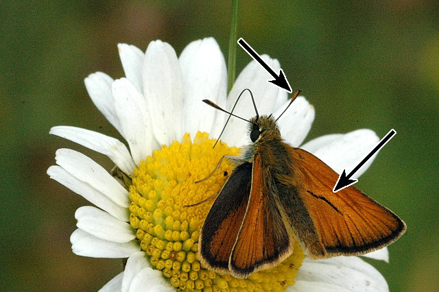 Thymelicus sylvestris from Commanster, Belgian High Ardennes.